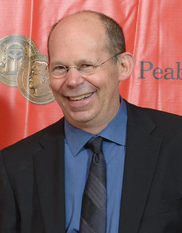 Linda Lutton, Ben Calhoun, Julie Snyder, Robyn Semien and Alex Kotlowitz from "This American Life: Harper High School" at the 73rd Annual Peabody Awards.